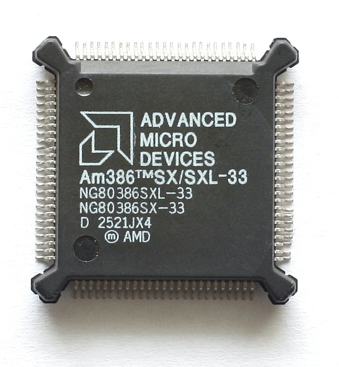 CPU AMD 80386SX/SXL